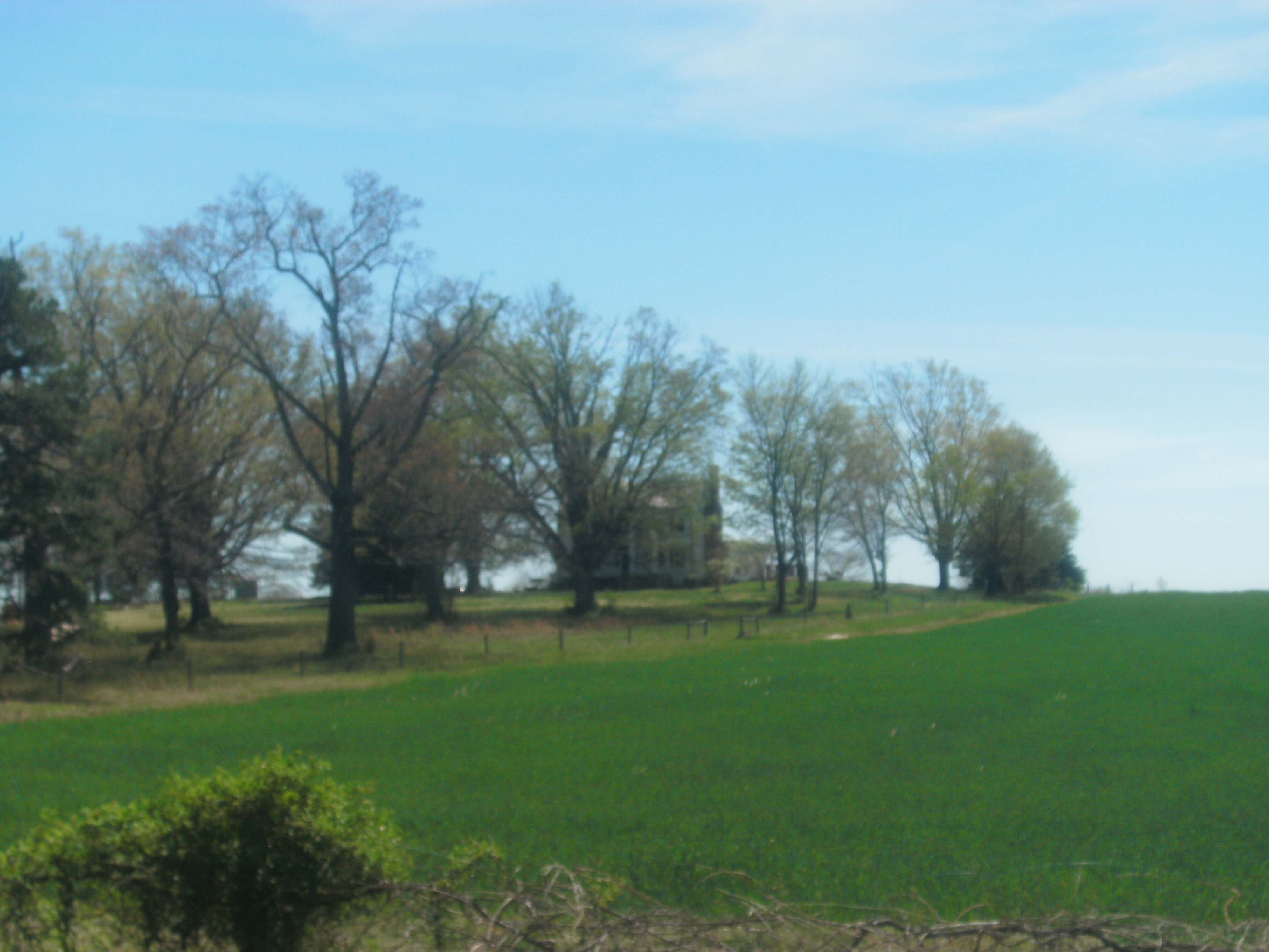 Inverness